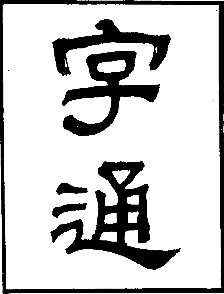 Zitong title page with seal characters, (1660) 知不足齋叢書 edition photocopy